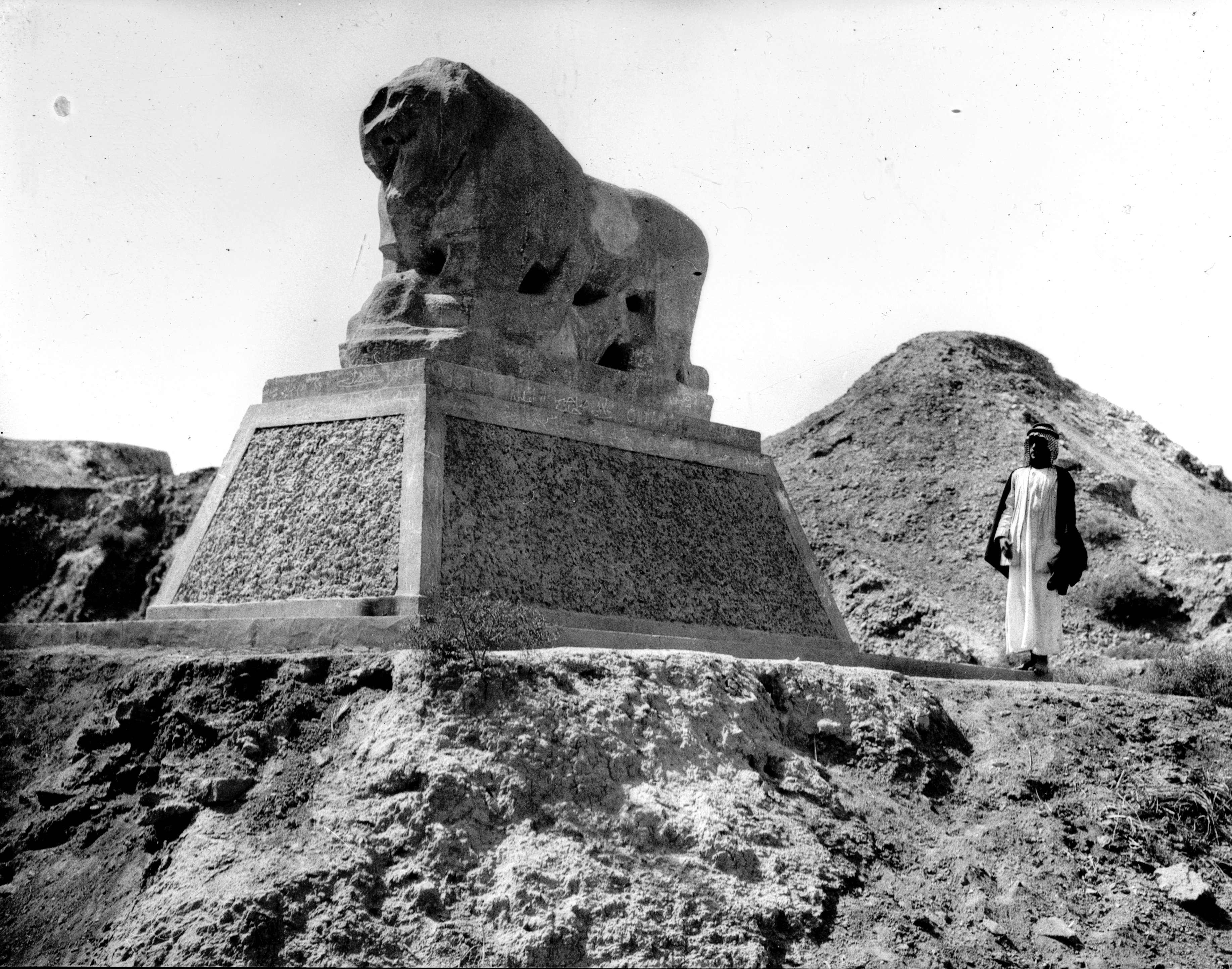 Iraq. Babylon. Basalt lion.